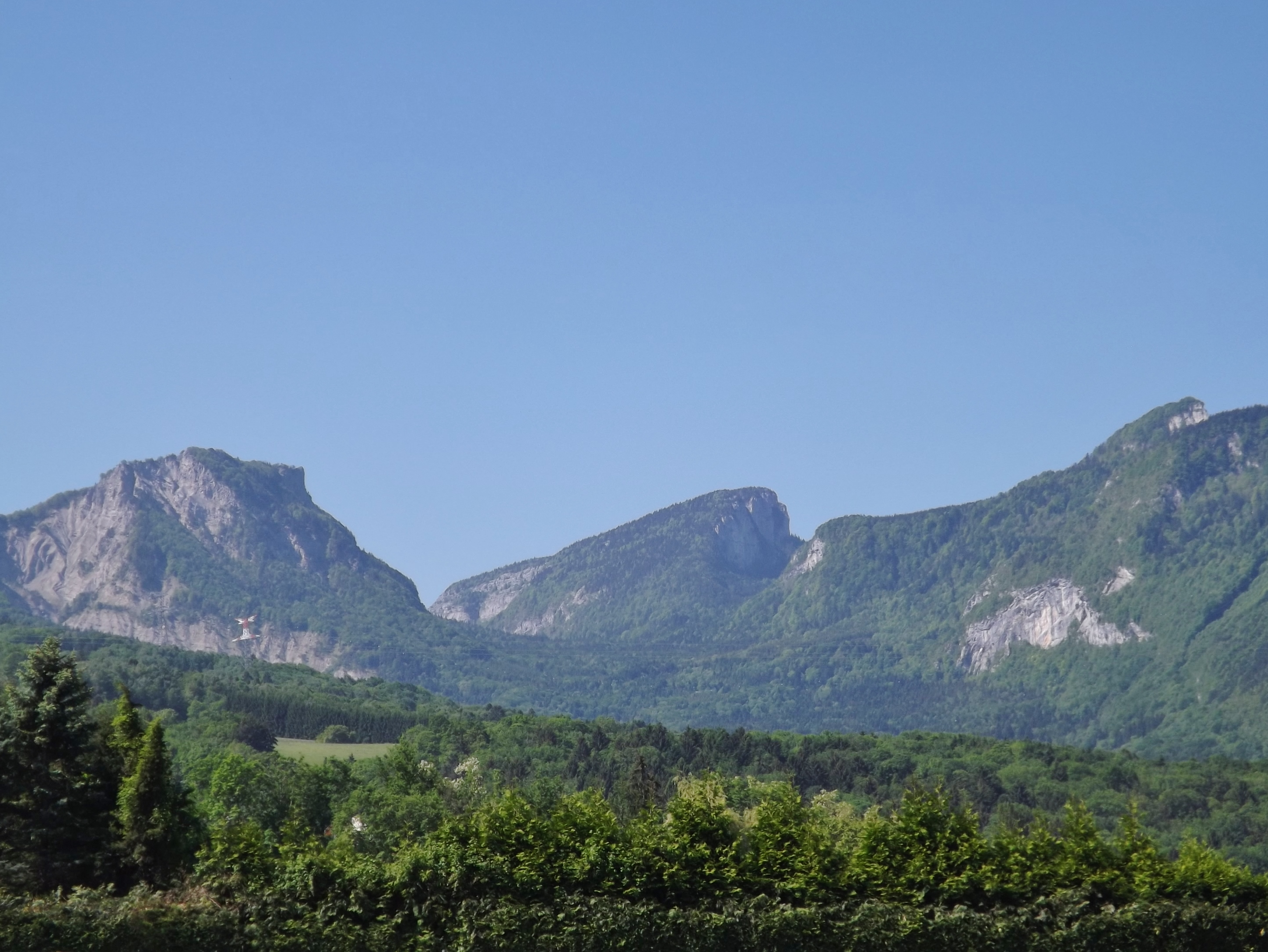 Sight, from Montganole, of the mont Pellat (1,443 meters high), mont Outheran (1,676 m) and dent du Corbeley (1,419 m) mounts, in the Chartreuse mountain range, near Chambéry in Savoie, France.